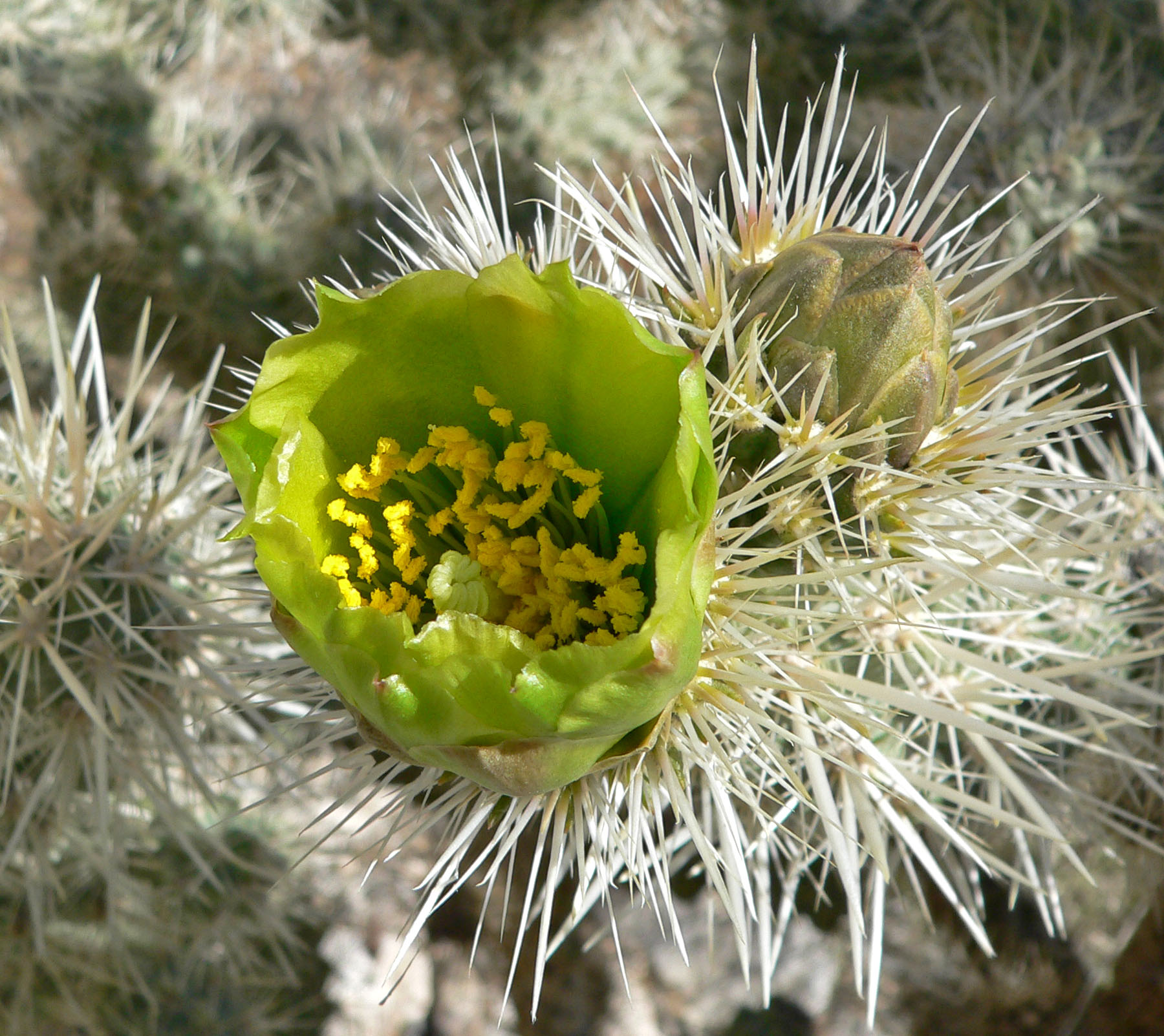 Photo of Cylindropuntia echinocarpa (golden or silver cholla) in the desert at the west end of Cheyenne Ave, Las Vegas, Nevada (Lone Mountain area)